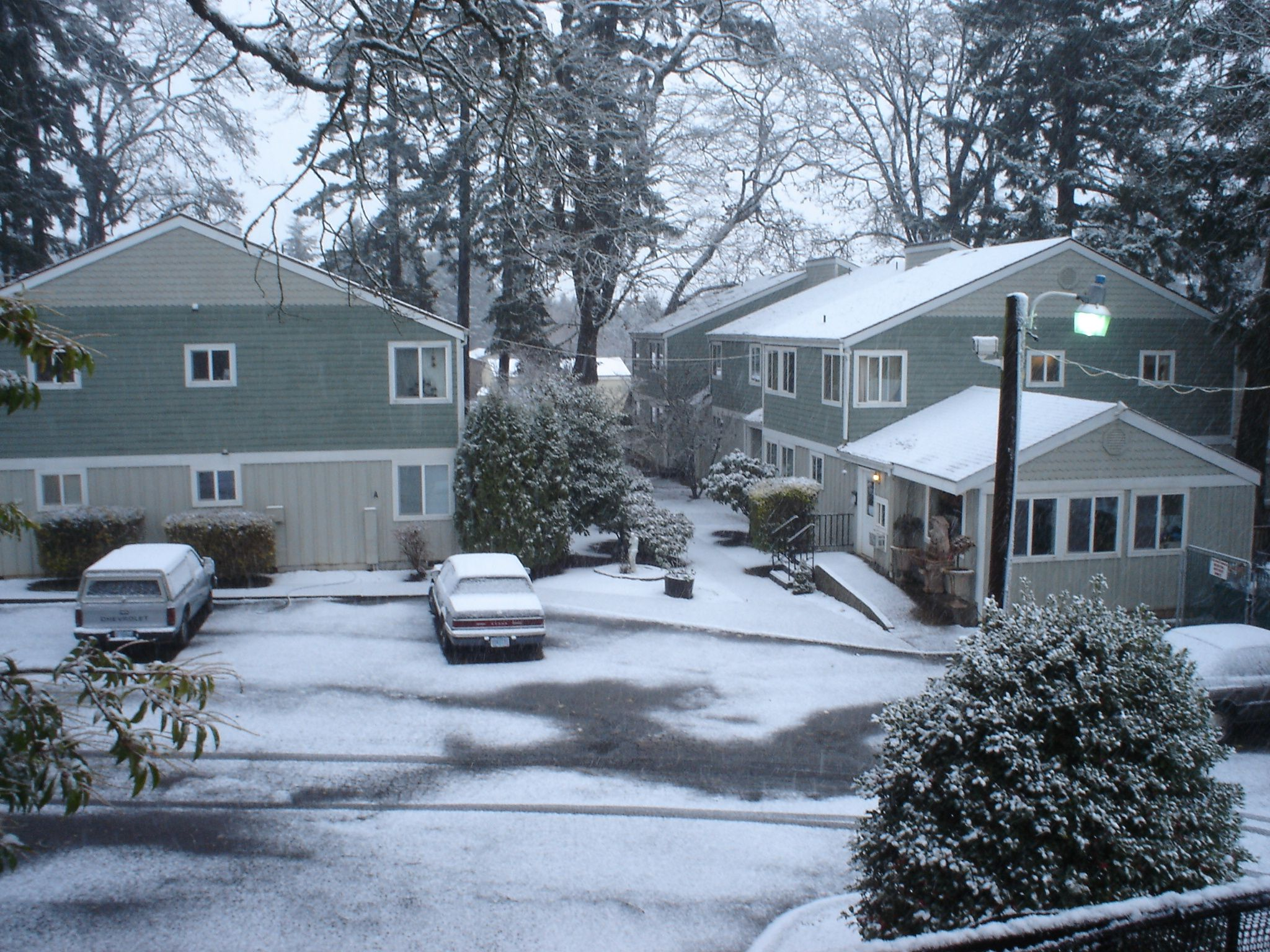 A rare blanket of snow at an apartment complex in Sunnyslope, Salem, Oregon. Photograph taken 27 November 2006.